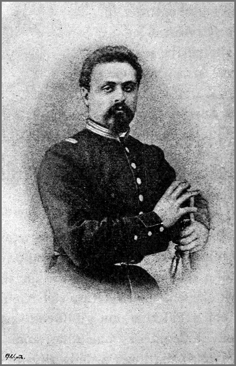 Illustration from book Storia dei Mille by Giuseppe Cesare Abba - Giuseppe Bandi